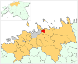 Location map of Maardu town, Estonia. Used location map of Harju County created by Siim.